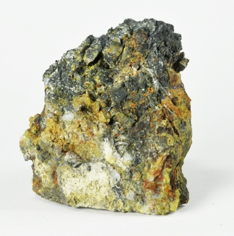 Hydrokenoelsmoreite, Stolzite Seagraves Mine (Lone Star Mine; Silver King Prospect; Star Mine; Grey Eagle Mine), Seafoam District, Custer Co., Idaho, USA Locality: Seagraves Mine (Lone Star Mine; Silver King Prospect; Star Mine; Grey Eagle Mine), Seafoam District, Custer County, Idaho, USA (Locality at ) Size: 6.5 x 6.0 x 4.5 cm. White stolzite grains accent rich yellow veins of Hydrokenoelsmoreite (formerly known as ferritungstite) crystals (micros, but visible with a loupe) on this rare locality piece. Old material from the Pasco, Washington collection of Andrew Micklancic.